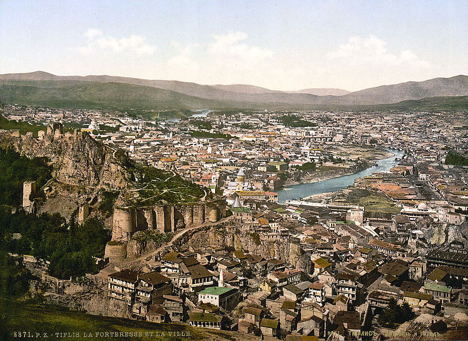 19th-century vintage postcard of Tbilisi.